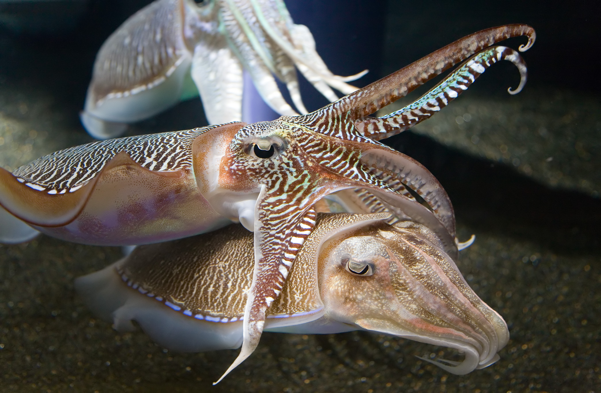 Two cuttlefish interacting (cuddling) at the Georgia Aquarium, Atlanta, US.